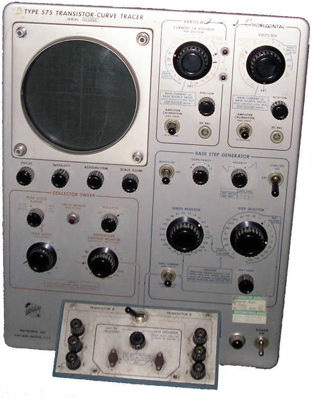 Transistor-curve tracer, Type 575, Serial 010842, Tektronix, inc. Portland, Oregon, U.S.A.